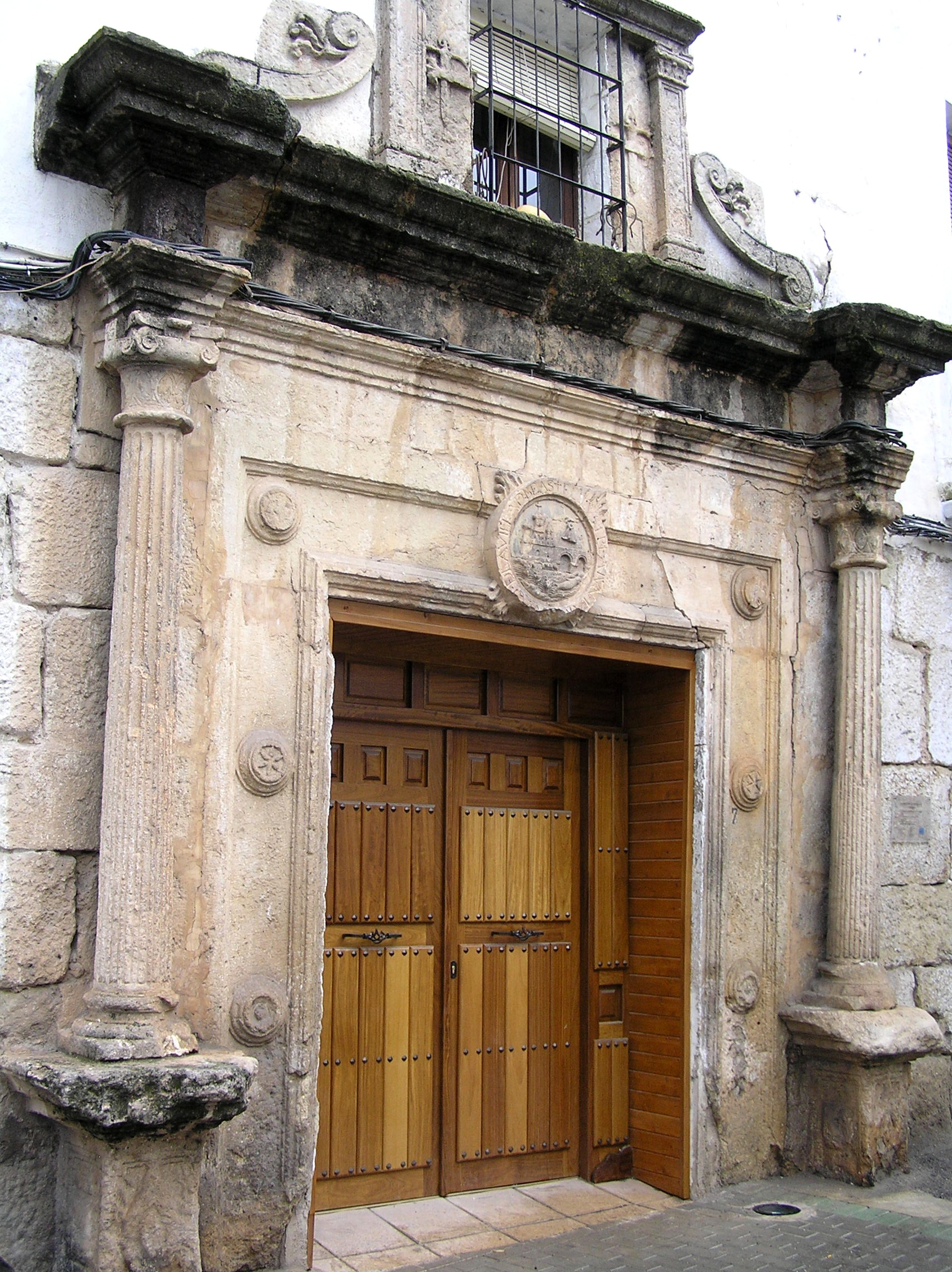 Beas cuatro